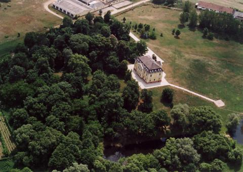 Szügy, Hungary, aerialphotography